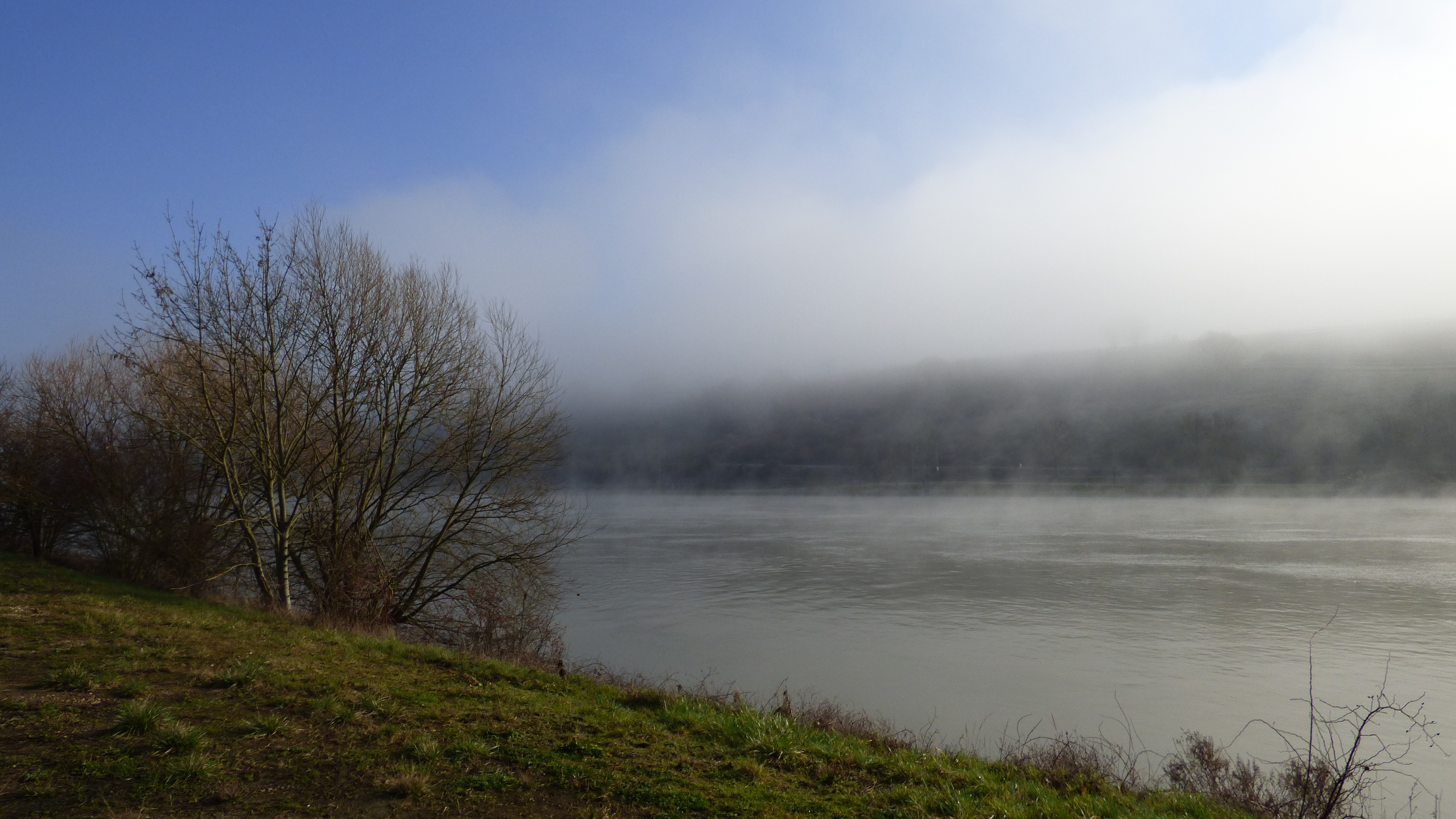 FOGGY MORNING AT THE MOSELLE, LU